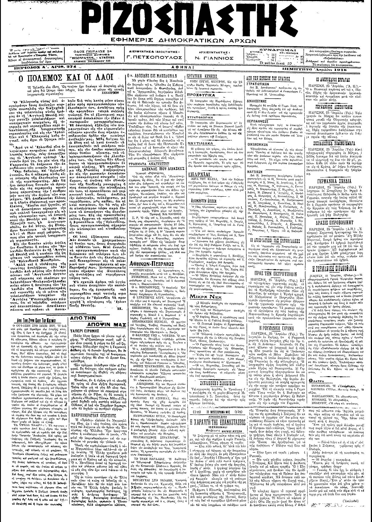 Riizospastis, Greek newspaper 1918 April 26